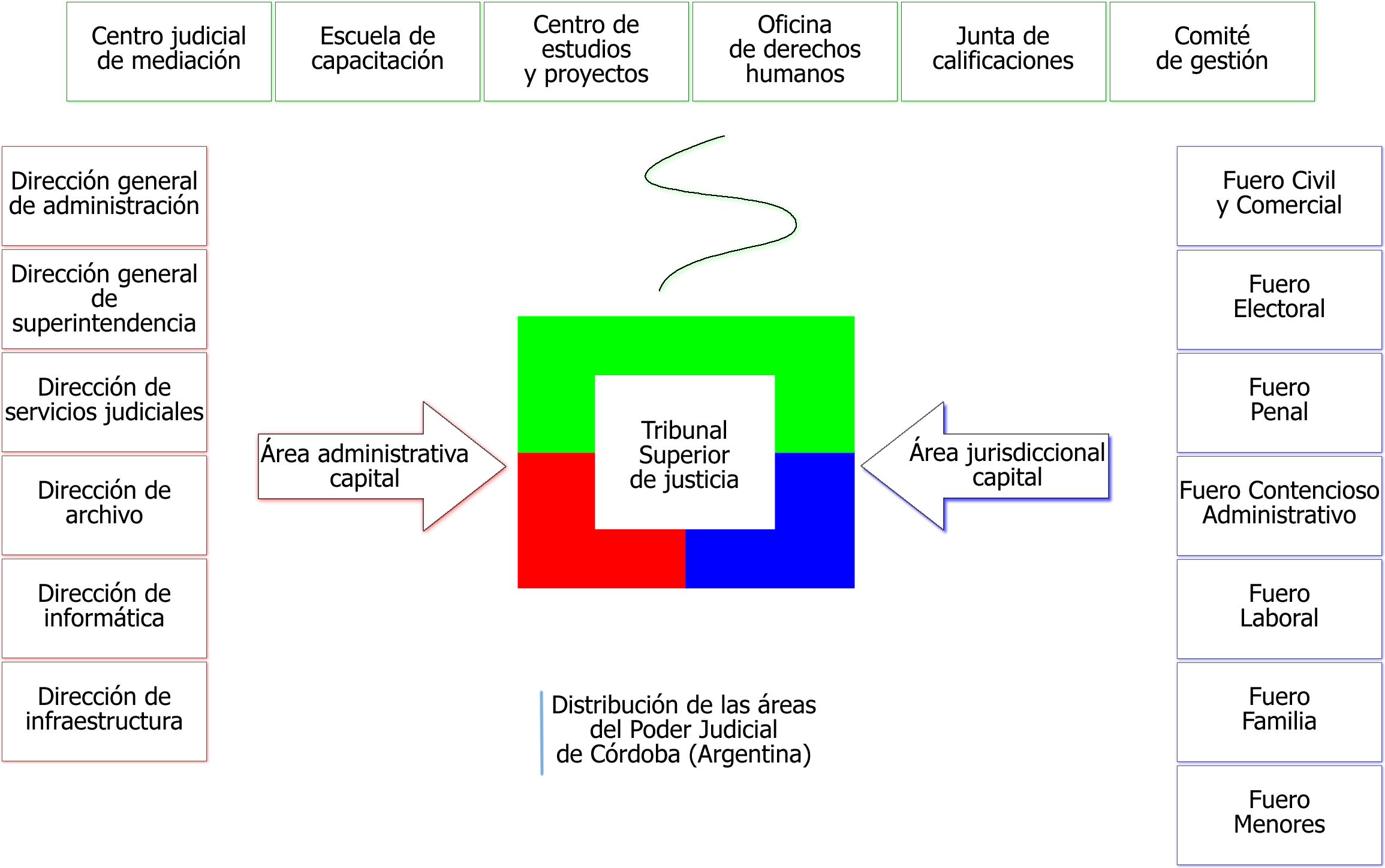 Areas distribution of the judiciary in Cordoba city (Argentina).